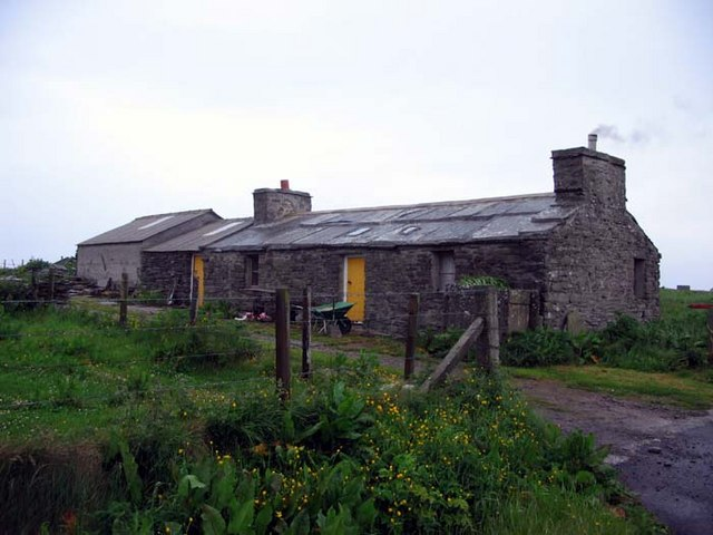 Typical house on Papa Westray Built using local material you will notice the roof is made from large square flagstones, normally used for paving.